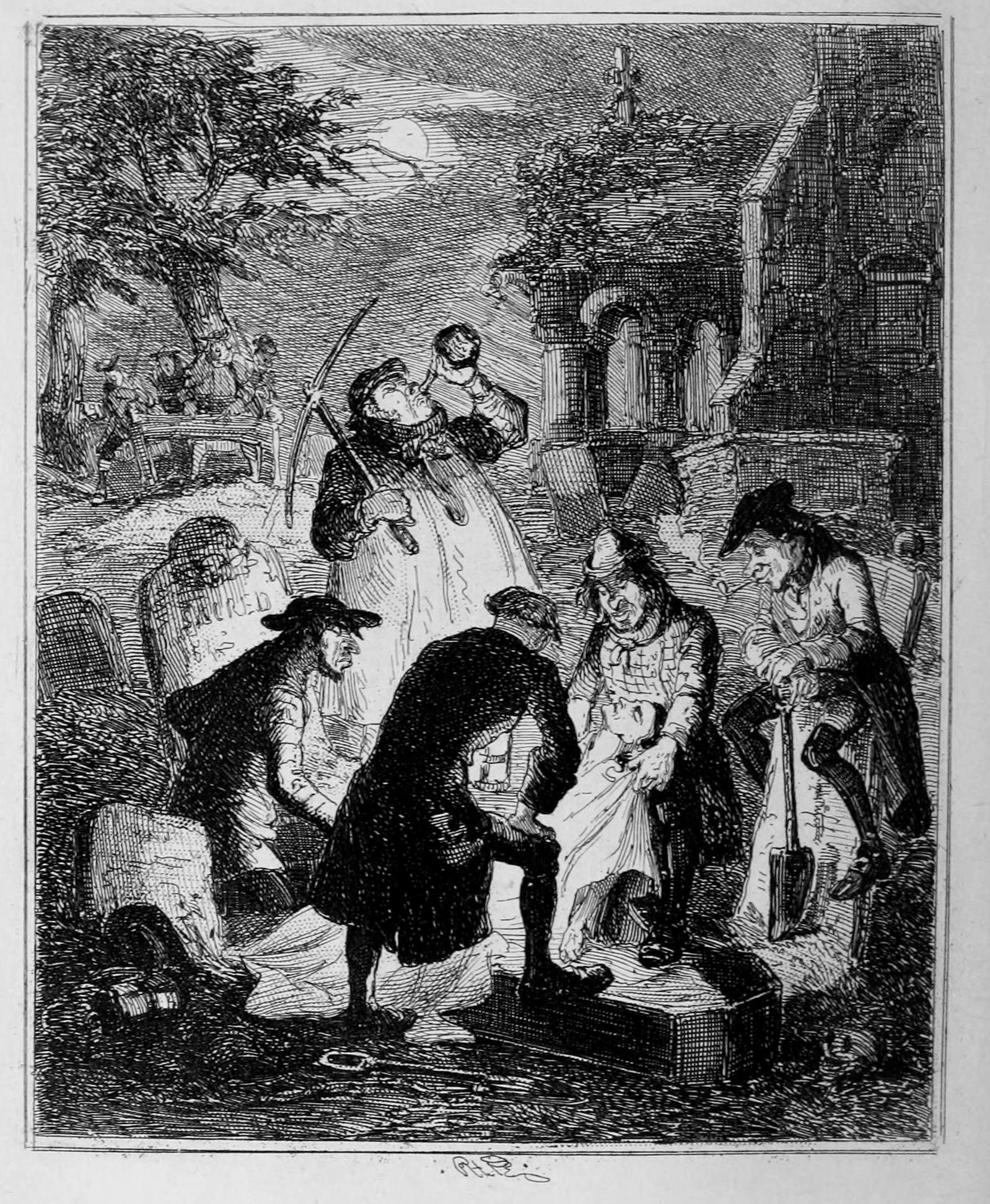 Illustration of resurrectionists at work, accompanying the story of John Holmes and Peter Williams, whipped for stealing dead bodies.